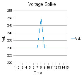 Line chart created by myself using Calc.